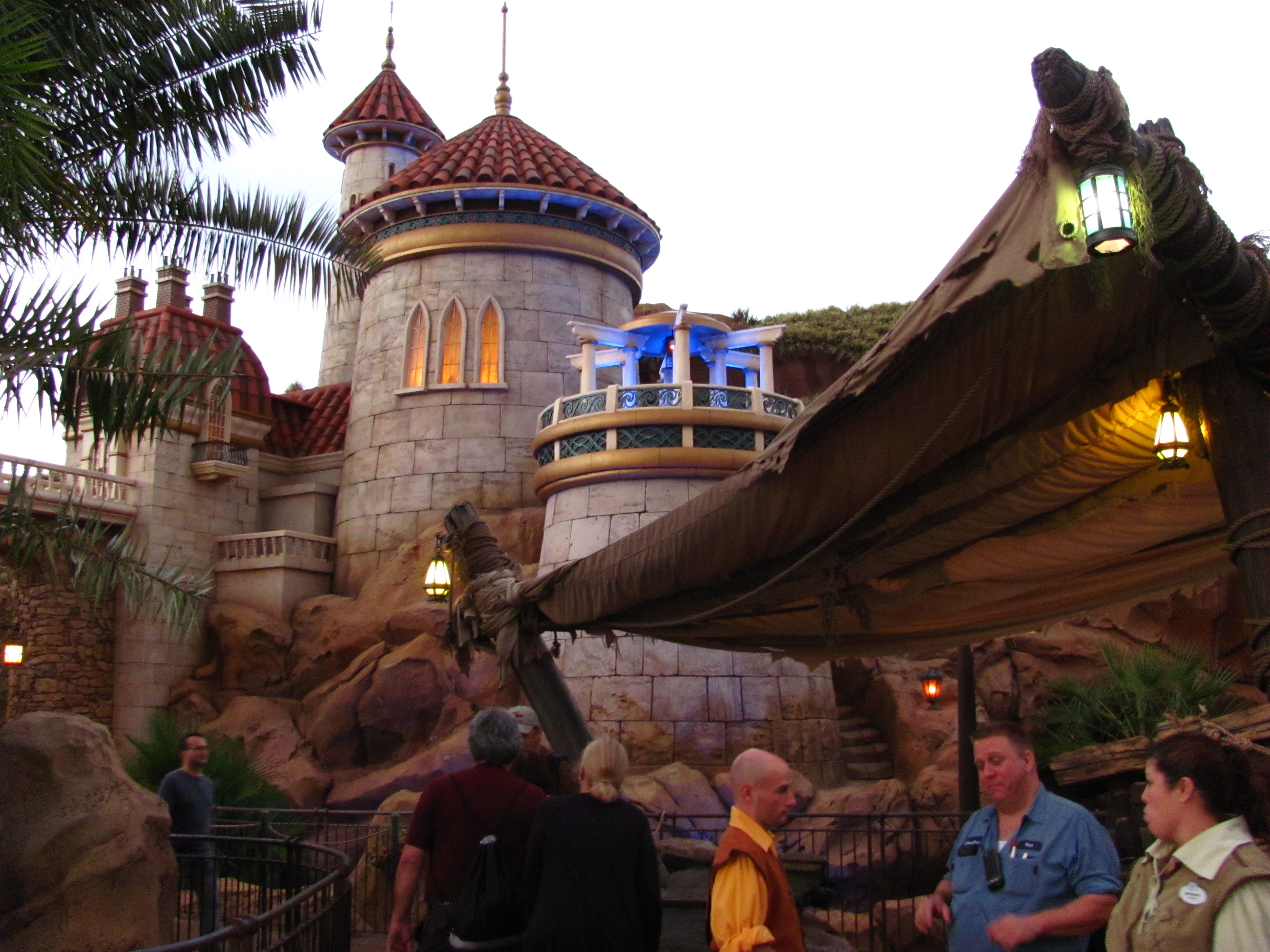 Under the Sea: Journey of the Little Mermaid (I'm not sure why theme park attraction names have to be such a mouthful when the much longer movies they're directly based on are much more succinctly named.)